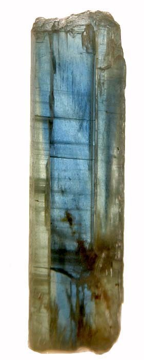 Kyanite Locality: Serra das Éguas, Brumado (Bom Jesus dos Meiras), Bahia, Northeast Region, Brazil (Locality at ) I was really sorry when this find turned out to be short-lived, because these kyanite crystals are exceptional for two reasons. First, they are GEMMY, where kyanites are usually opaque, boring crystals locked in quartz matrix. And second, they have the most incredible zoning – a distinct blue stripe running right down the middle (the zoning on the specimen is better and sharper than the pic shows). The crystal has the usual rather rough natural termination on top. This is one of the best I have seen of the “blue-stripes”. It is rather thick and substantial as well. 4.9 x 1.3 x 0.6 cm